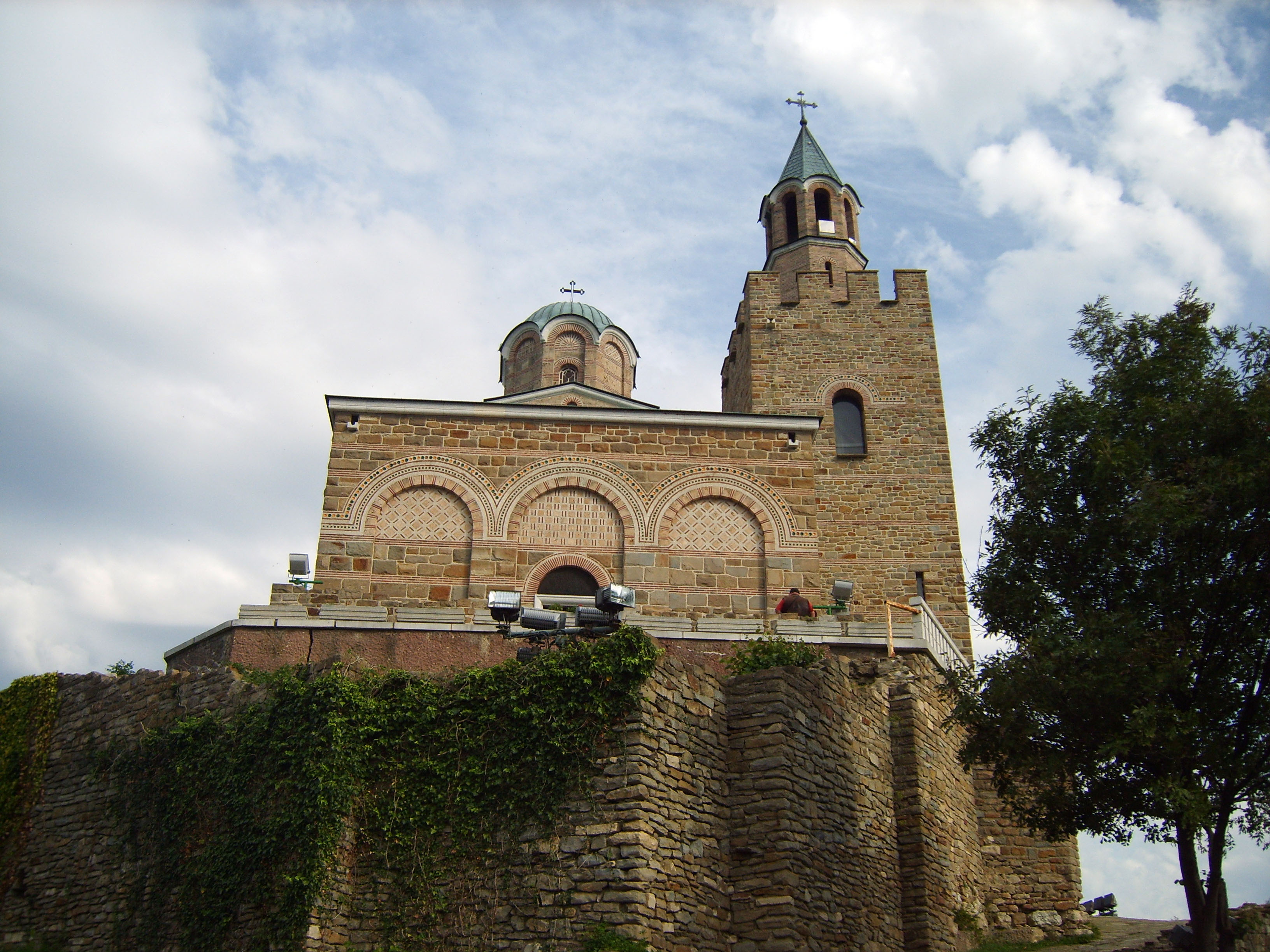 Patriarch church, Tsarevets, Veliko Tarnovo